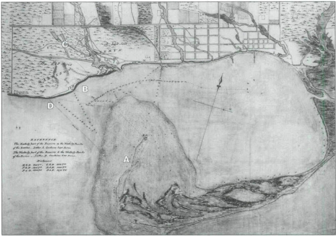 Fortifications of York, Upper Canada, when invaded in 1813. Original caption: "The locations of the Toronto blockhouse of 1813-14 'A' Gibraltar Point Blockhouse; 'B' Fort York, site of Blockhouse Nos 1 and 2; 'C' Ravine Blockhouse; and 'D' Western Battery and Blockhouse, as superimposed on an 1833 plan but which shows Toronto much as it was late in the War of 1812. (Courtesy National Archives of Canada, NMC-21769)" This image is available from Library and Archives Canada under the reproduction reference number NMC-21769 This tag does not indicate the copyright status of the attached work. A normal copyright tag is still required. See Commons:Licensing for more information. Library and Archives Canada does not allow free use of its copyrighted works. See Category:Images from Library and Archives Canada. This map seems to show three creeks between Russell Creek and Taddle Creek.